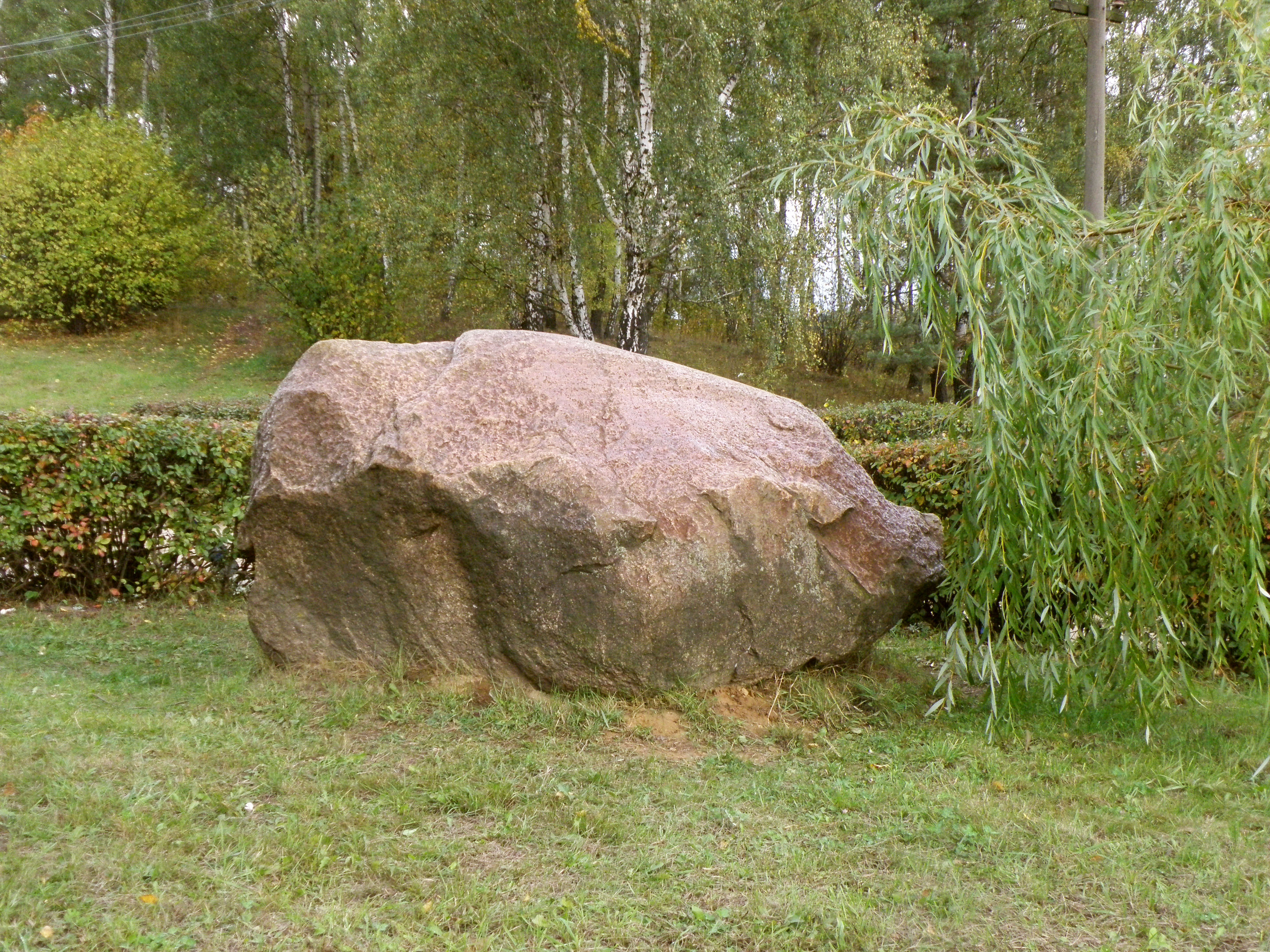 Pig Stone near the Vjazynka Train Station, Belarus